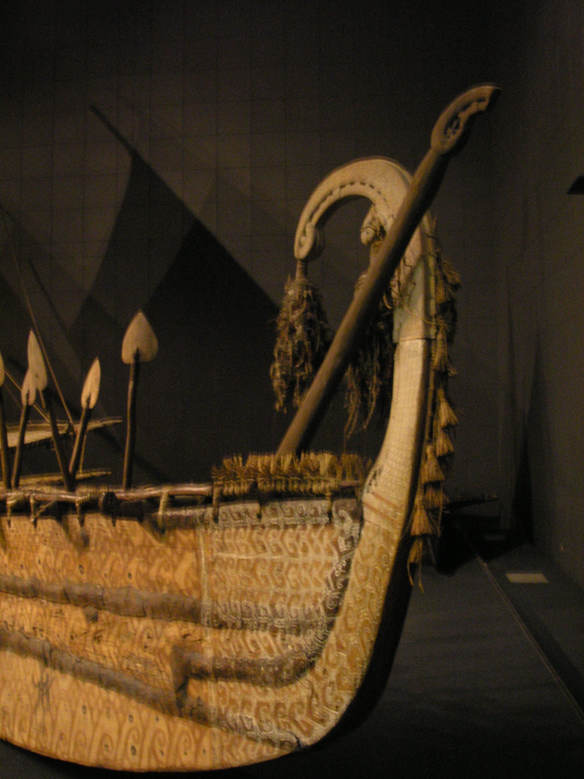 Detail of a blue-ocean ship from Luf off the coast of Papua New Guinea. This boat was constructed in 1890 and brought to Berlin in 1904. It was used by the native population of Luf for trade and warfare. For longer journeys into the open sea it could transport up to 50 persons. A platform was used to transport goods. To stabilise the ship depending on the winds, the crews would move to different locations on the ship, the platform, and a small "bridge". The ship itself was carved out of a single, large treetrunk. Plant adhesive was used for insulation against the water. The whole ship was constructed without a single nail, all parts are held together with plant material. The rectangular sails are typical for the region, but unusual for the wider Oceanic region. This ship is the last of its kind and kept at the Ethnologisches Museum, Berlin-Dahlem. The population of Luf became extinct in 1940.